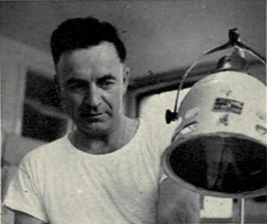 Photograph of Jim Hunt, Michigan Wolverines football trainer, 1947–1967 This work is in the public domain because it was published in the United States between 1923 and 1963 and although there may or may not have been a copyright notice, the copyright was not renewed. Unless its author has been dead for the required period, it is copyrighted in the countries or areas that do not apply the rule of the shorter term for US works, such as Canada (50 pma), Mainland China (50 pma, not Hong Kong or Macao), Germany (70 pma), Mexico (100 pma), Switzerland (70 pma), and other countries with individual treaties. See Commons:Hirtle chart for further explanation. This work is in the public domain in the United States because it was published in the United States between 1923 and 1977 without a copyright notice. See Commons:Hirtle chart for further explanation. Note that it may still be copyrighted in jurisdictions that do not apply the rule of the shorter term for US works (depending on the date of the author's death), such as Canada (50 p.m.a.), Mainland China (50 p.m.a., not Hong Kong or Macao), Germany (70 p.m.a.), Mexico (100 p.m.a.), Switzerland (70 p.m.a.), and other countries with individual treaties.